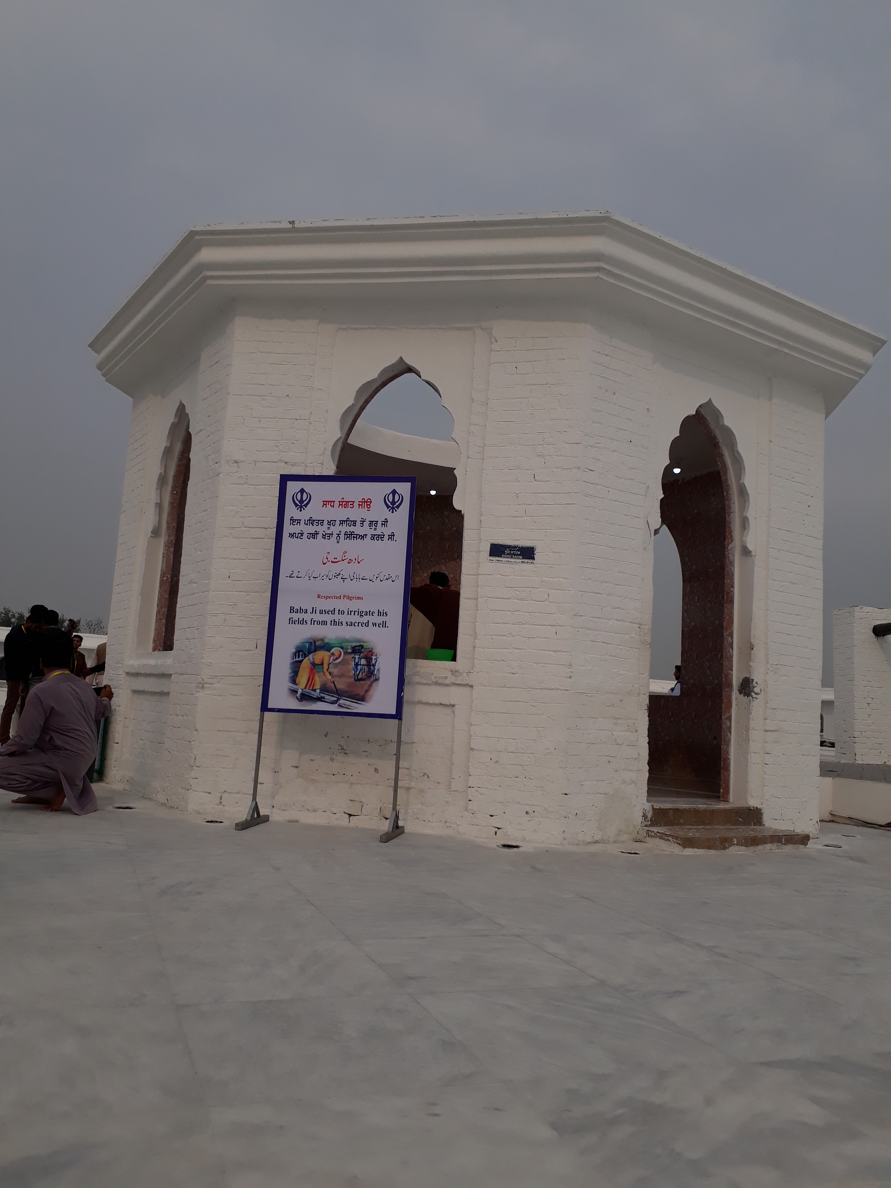 Well was equipped with Persian wheel and used by baba Nanak for irrigating his fields